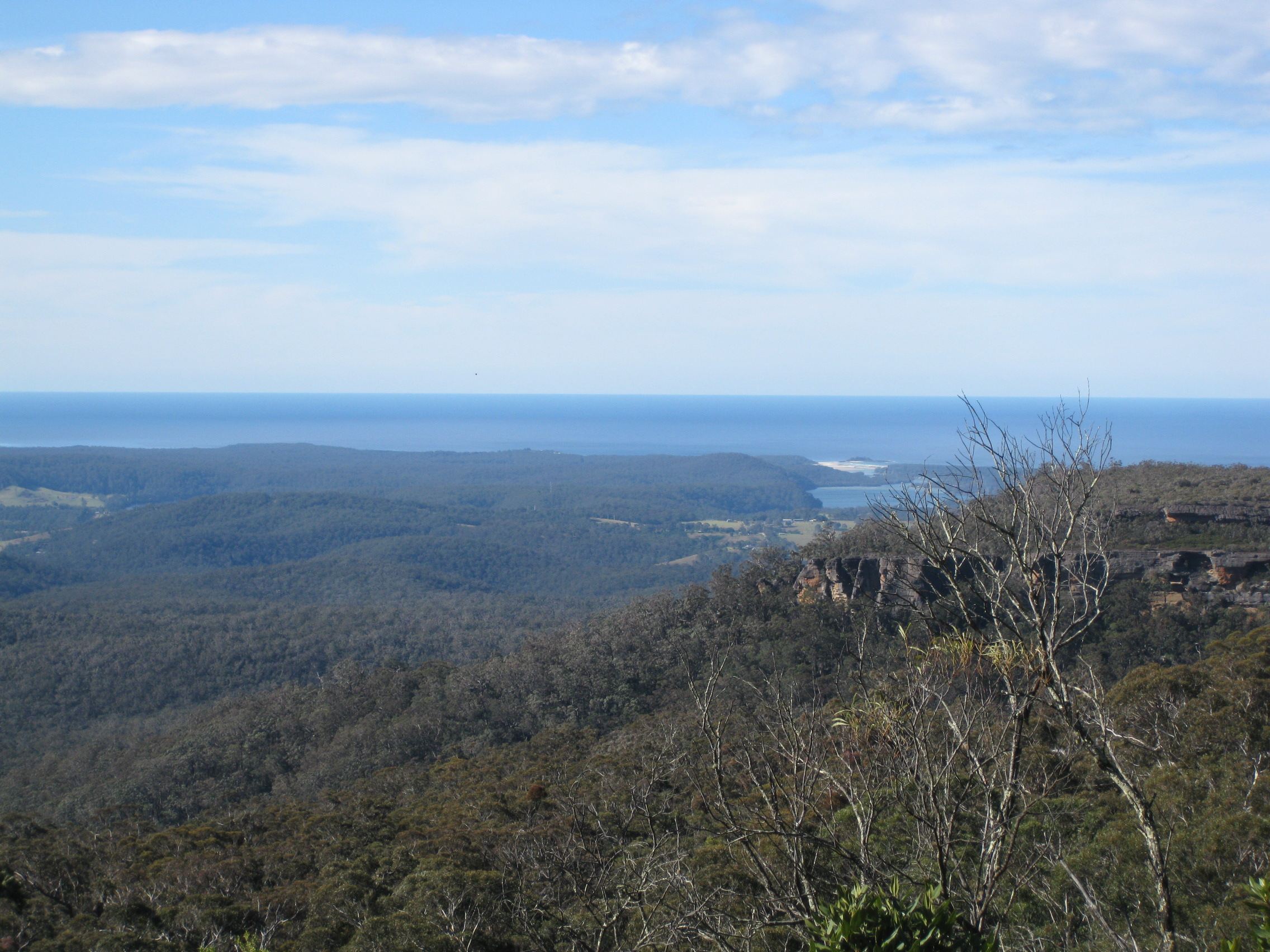 View from the Look-out over the Conjola National Park